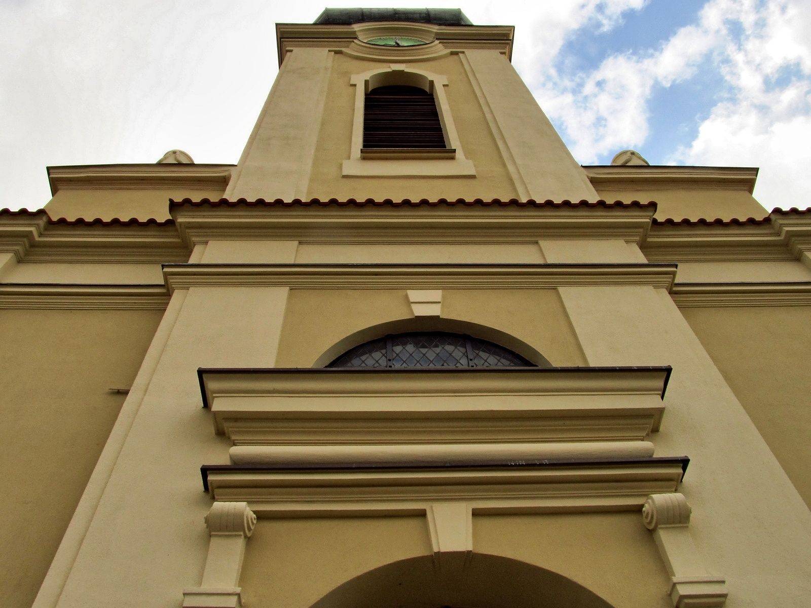 The front facade of the church